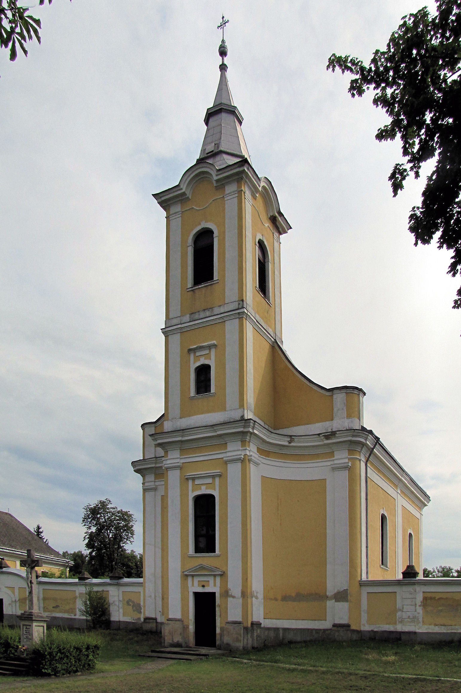 Roman Catholic Church, Előszállás, built in 1778-79.